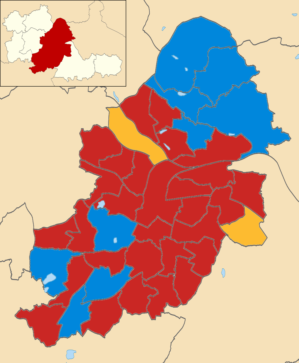 Results of the 2015 local elections in Birmingham Colours: Conservative Labour Liberal Democrat